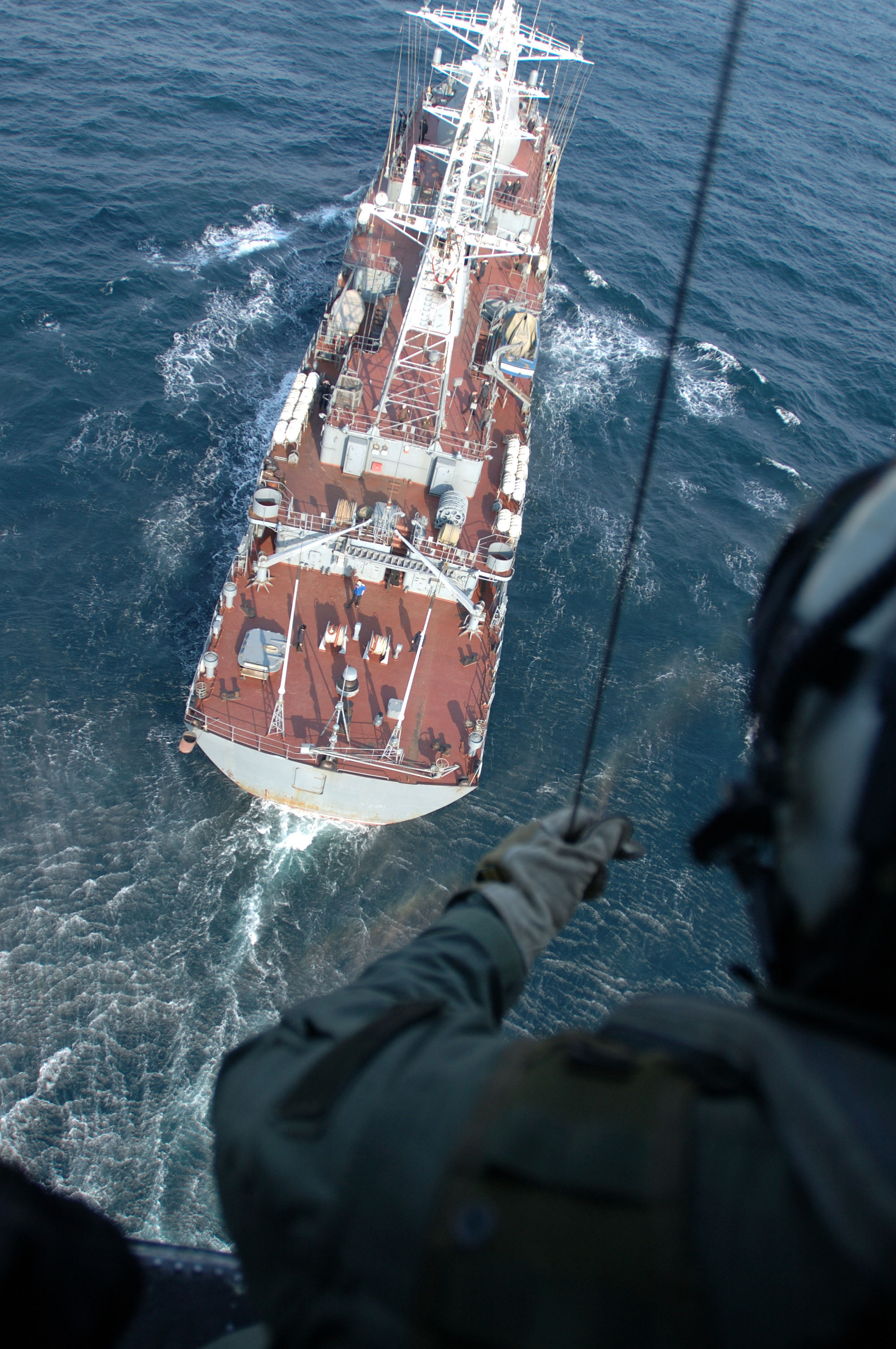 Yokosuka, Japan (Mar. 20, 2005) - Aircrew from Helicopter Anti-submarine Squadron One Four (HS-14) is embarked aboard USS Kitty Hawk (CV-63) lowers memorabilia from the Kitty Hawk Strike Group to a Vishnya-class AGI ship, Kurily (SSV-208), as a goodwill gesture. Kurily adjusted its course earlier in the day, allowing Kitty Hawk and embarked Carrier Air Wing Five (CVW-5) sea space to perform scheduled air operations. The Kitty Hawk is currently participating in the annual joint exercise Foal Eagle with the Republic of Korea. Currently under way in the 7th Fleet area of responsibility (AOR), Kitty Hawk demonstrates power projection and sea control as the U.S. Navy's only permanently forward-deployed aircraft carrier, operating from Yokosuka, Japan. U.S. Navy photo by Photographer's Mate 2nd Class William H. Ramsey (RELEASED)